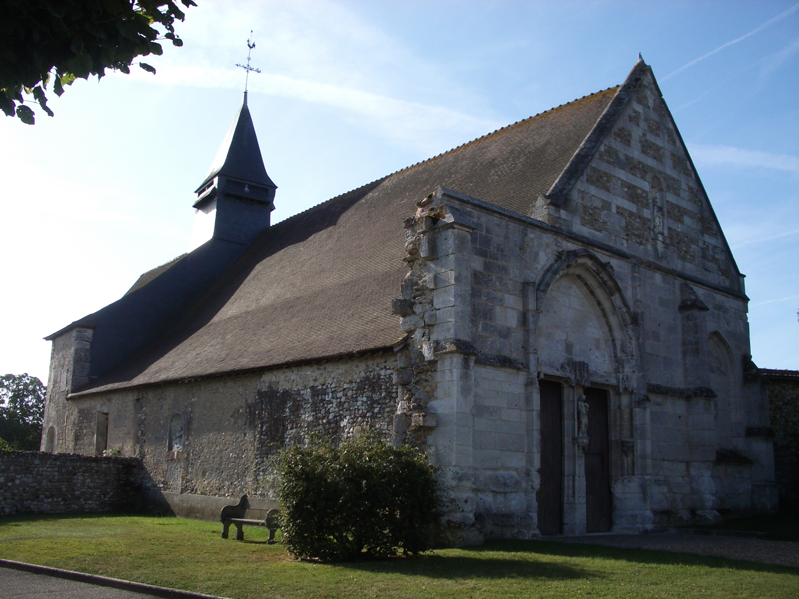 Church of Jouy-sur-Eure (Eure)